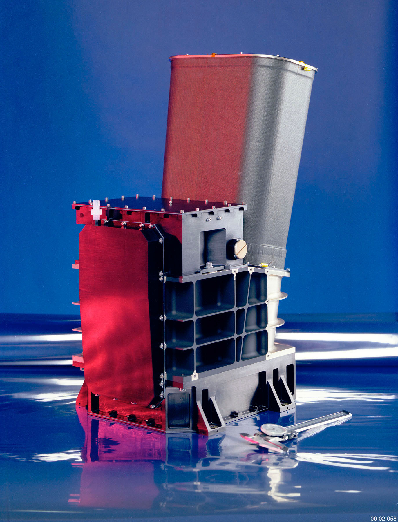 A THEMIS (Thermal Emission Imaging System) spectrometer, one of the scientific intruments aboard 2001 Mars Odyssey.